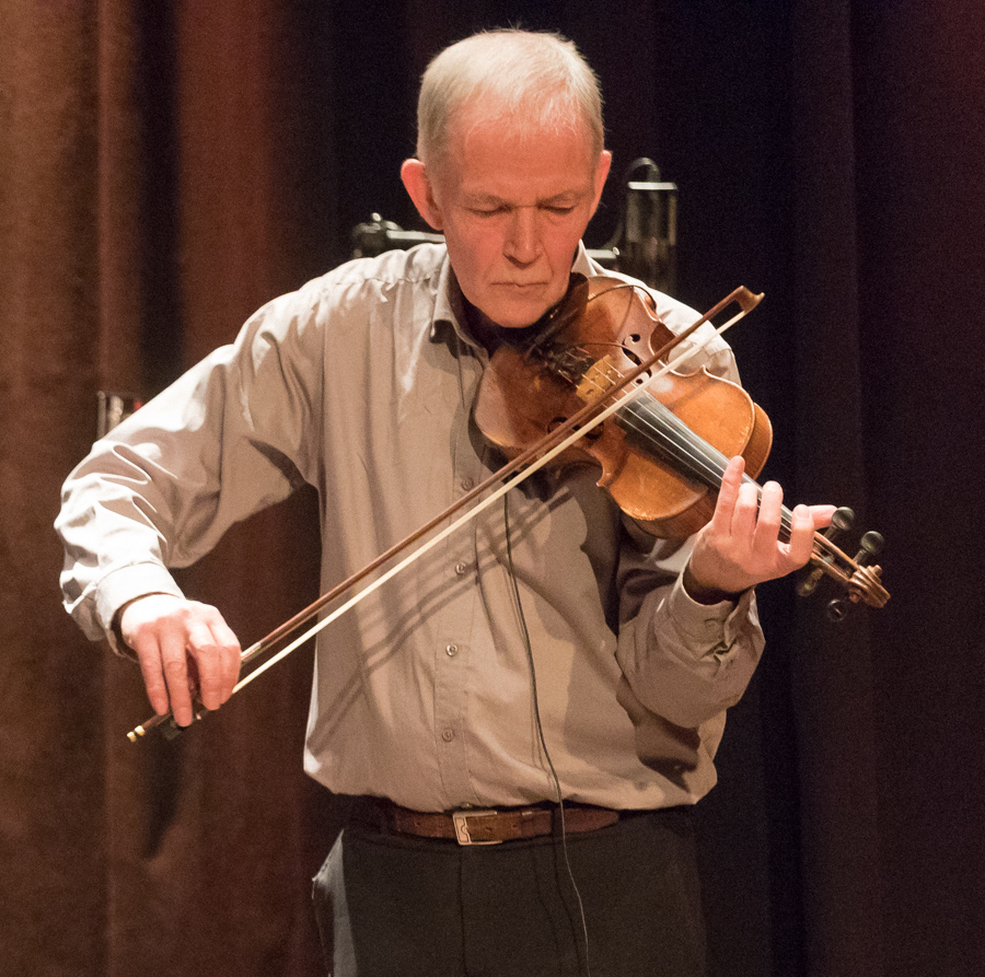 Finn Hauge performs with Hot Club de Norvège and Kourosh Kanani at Cosmopolite. The concert was part of Djangofestivalen 2017 and took place on 21. January 2017 in Oslo. Lineup: Jon Larsen (guitar) Svein Aarbostad (double bass) Finn Hauge (violin) Stian Vågen Nilsen (guitar) Kourosh Kanani (guitar) Unidentified (vocal)